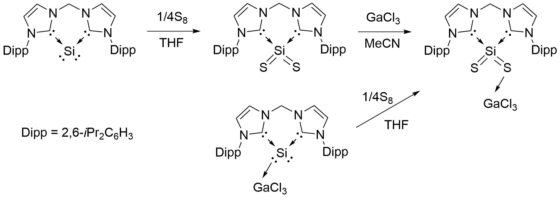 Synthesis schematic of chalcogenide silicon complexes, as described in Figure 6 of Yao et al. (